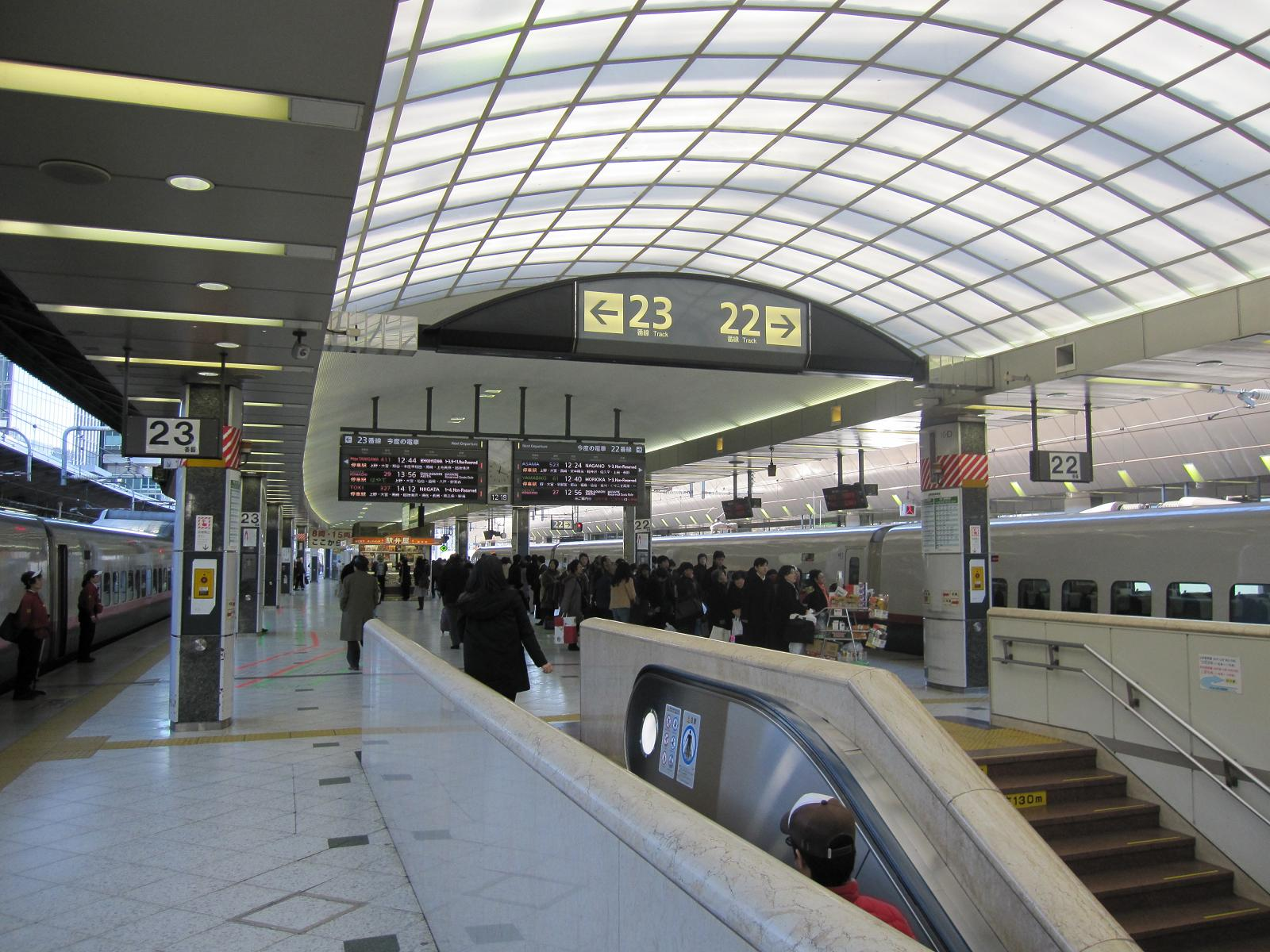 JR East Shinkansen platform at Tokyo station